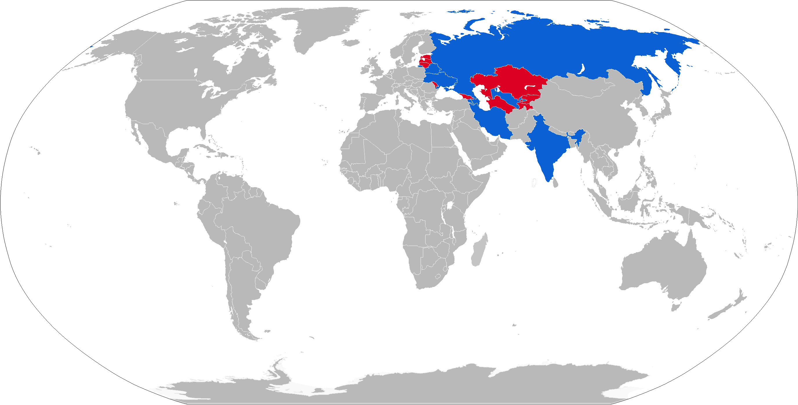 Map with 9K112 operators in blue and former operators in red